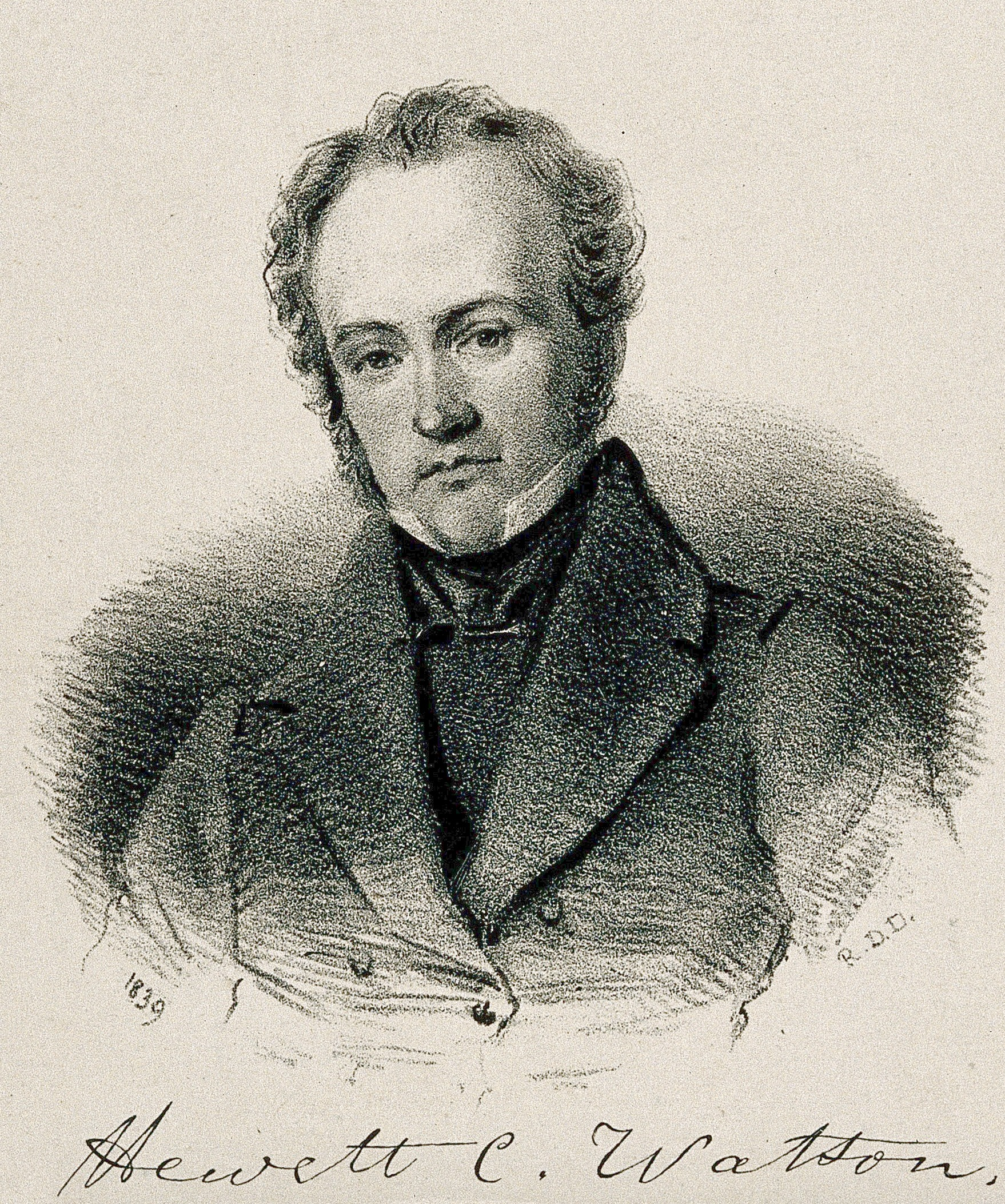 Portrait of Hewett Cottrell Watson (circa 1830).